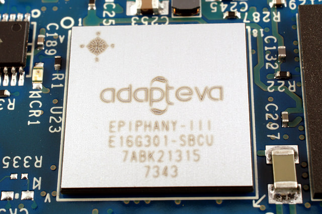 Second development kit of Parallella single-board computer by Adapteva company, funded on Kickstarter. 16 core Epiphany-III chip E16G301 is shown.